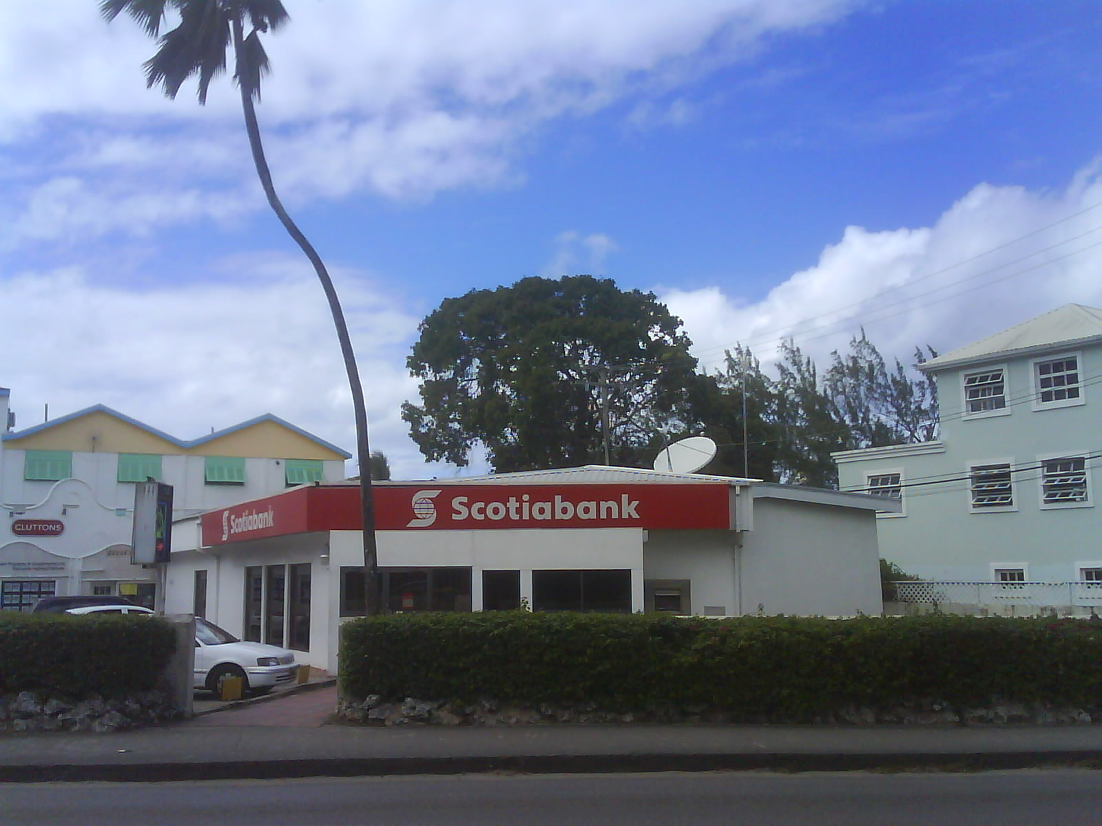 A branch of Scotiabank on Highway 1 in Holetown, Saint James, Barbados.